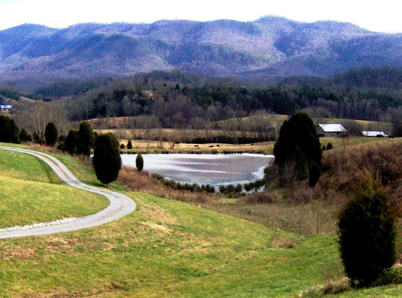 Retention pond, locally known as a "catch-all," near the Wildwood community in Blount County, Tennessee, USA. Chilhowee Mountain spans the horizon.